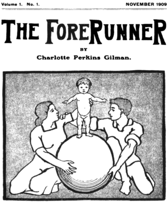 Cover to the inaugural issue of Forerunner (magazine).